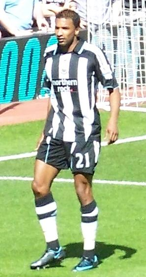 French-Senegalese football (soccer) player Habib Beye